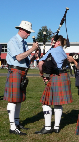 Robert MacNeil, former pipe major of the Simon Fraser University Pipe Band assists a young piping student with the tuning of her pipes prior to the piping competition at the 2005 Pacific Northwest Highland Games.